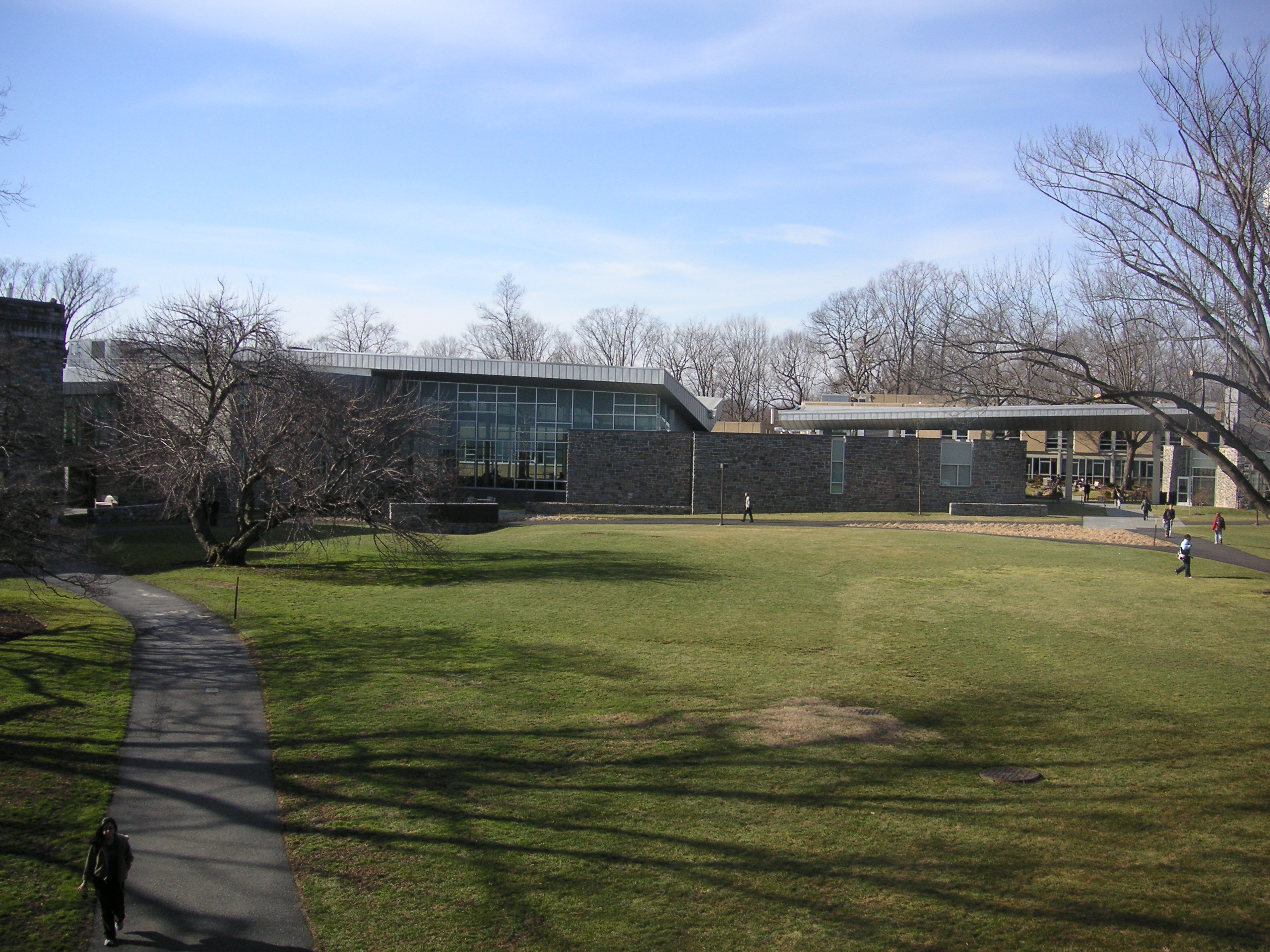 The Science Center of Swarthmore College.